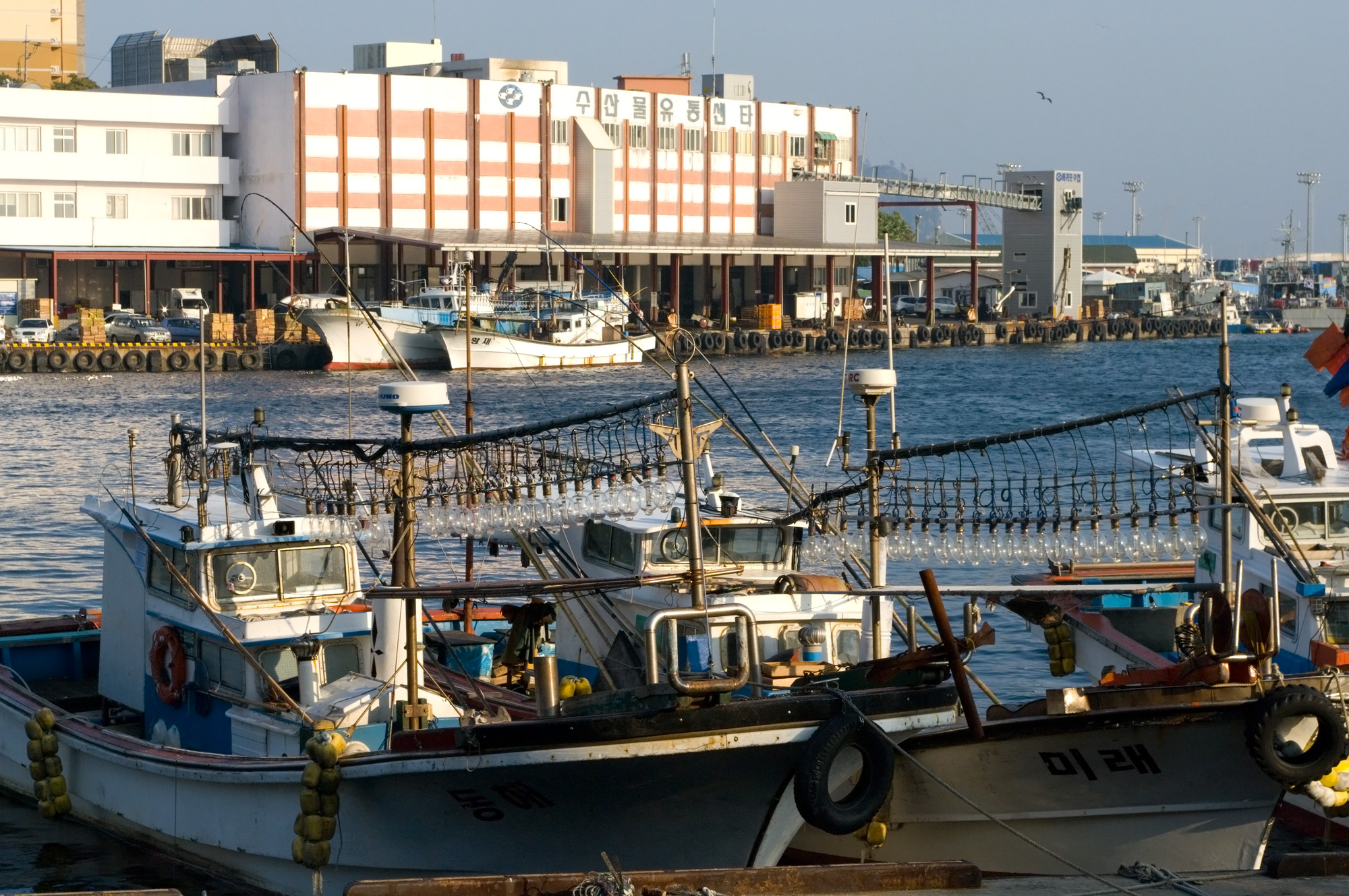 Some squid boats in Seogwipo City on Jeju. The boats go out at night and use the strings of lights to attract the squids, which I believe they line catch.